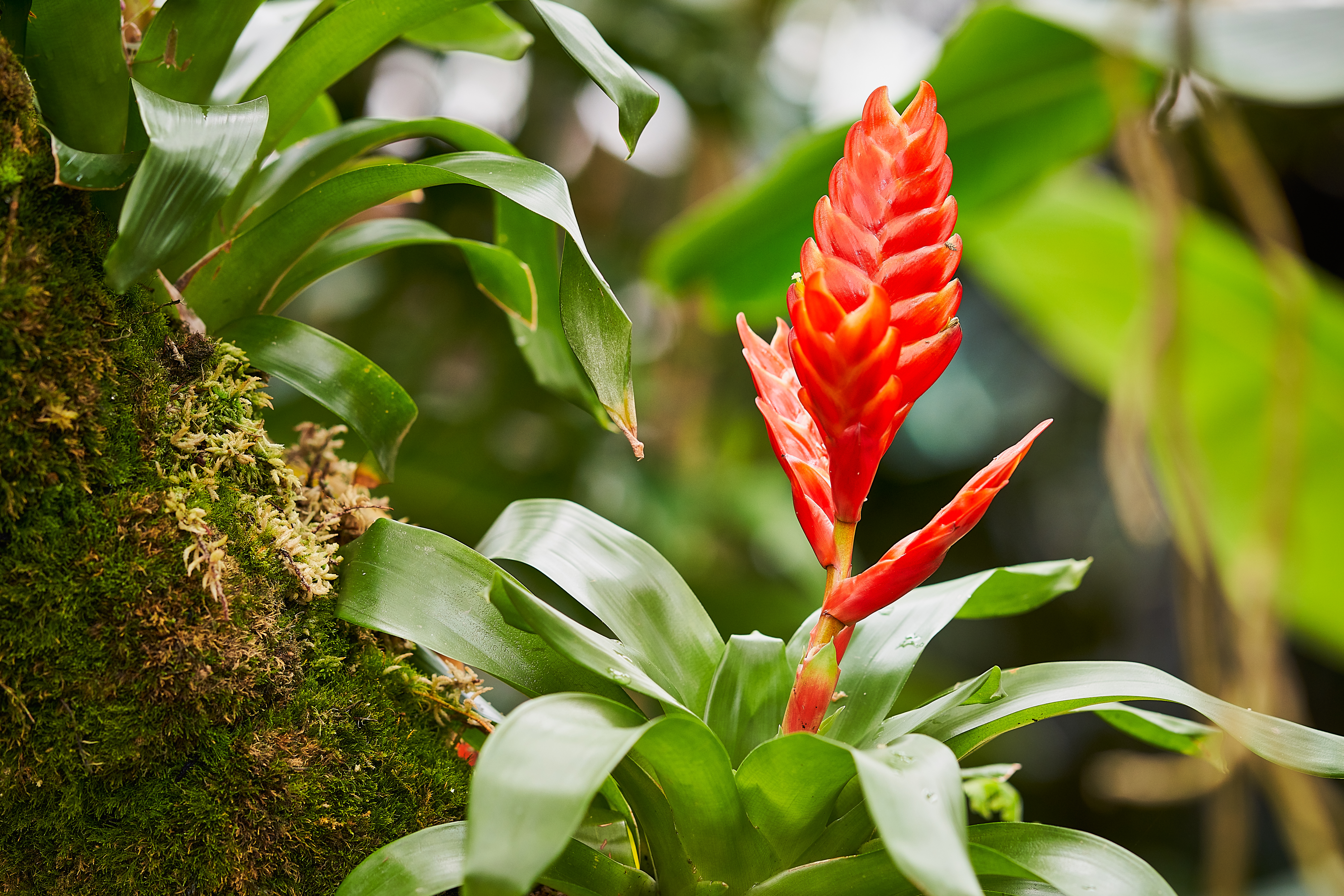 Vriesea is one of the forty genera of bromeliads. Within the Vriesea genus there are hundreds of different species and many more varieties and cultivars. Vrieseas are native to Central and South America, but are grown as indoor plants throughout the world. The Vriesea genus includes many small to medium varieties, but also incorporates some of the largest growing bromeliads. Vrieseas are very popular for their spectacular and long-lasting flower spikes. The Vrieseas that do not produce showy flower spikes usually have interesting foliage.